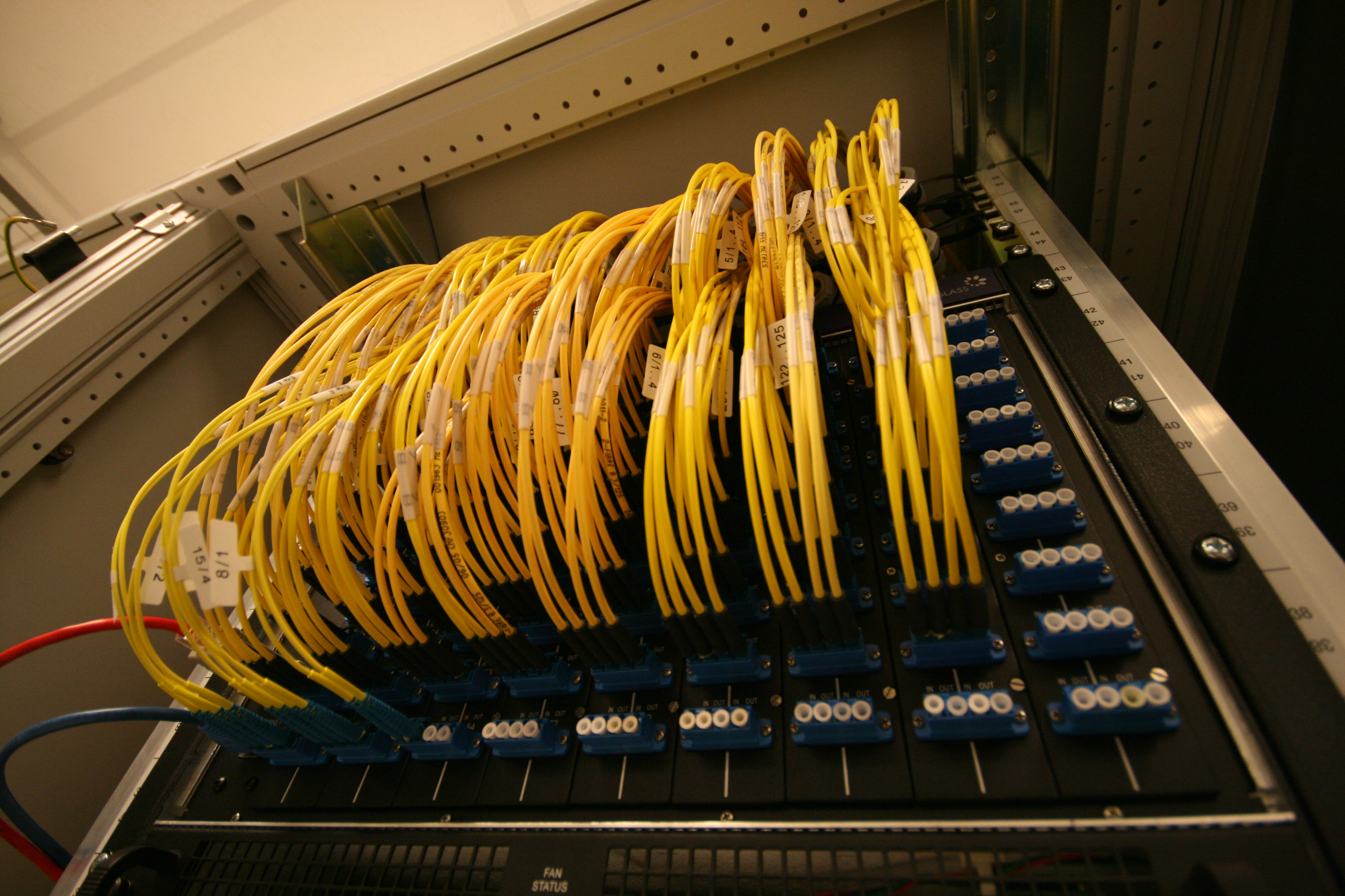 An optical patch panel of the AMS-IX Internet exchange point, in Amsterdam, Netherlands.